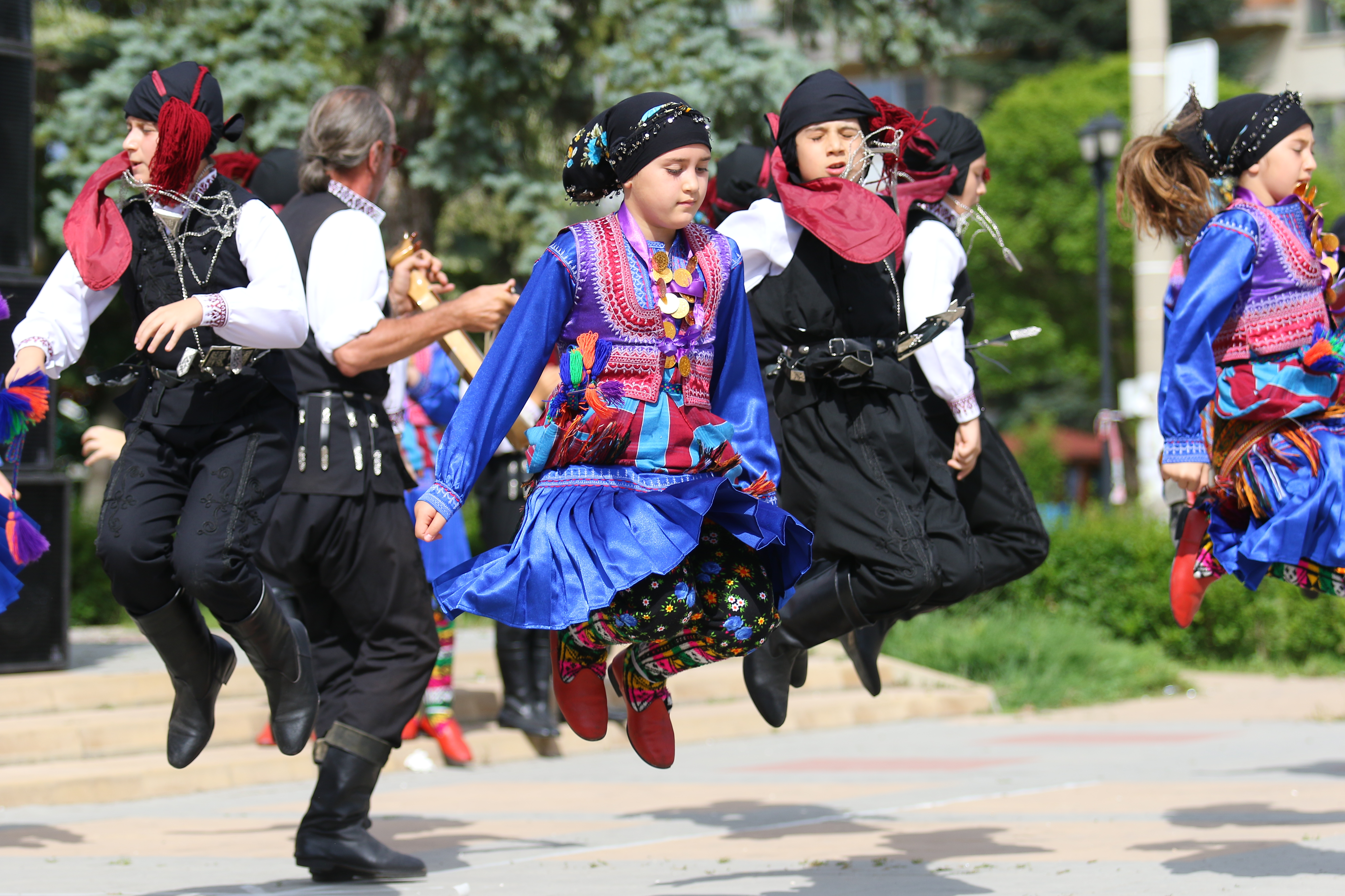 Children's folklore ensemble from Turkey during a festival in Bulgaria. This photo has been taken in the country: Bulgaria